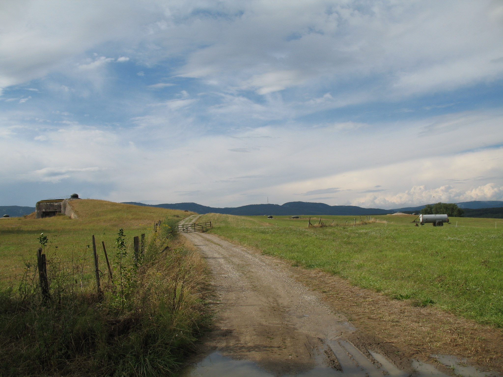 Ligne Maginot - Fort Schoenenbourg - Outside View of Artillery Block 3 Gun Turrets